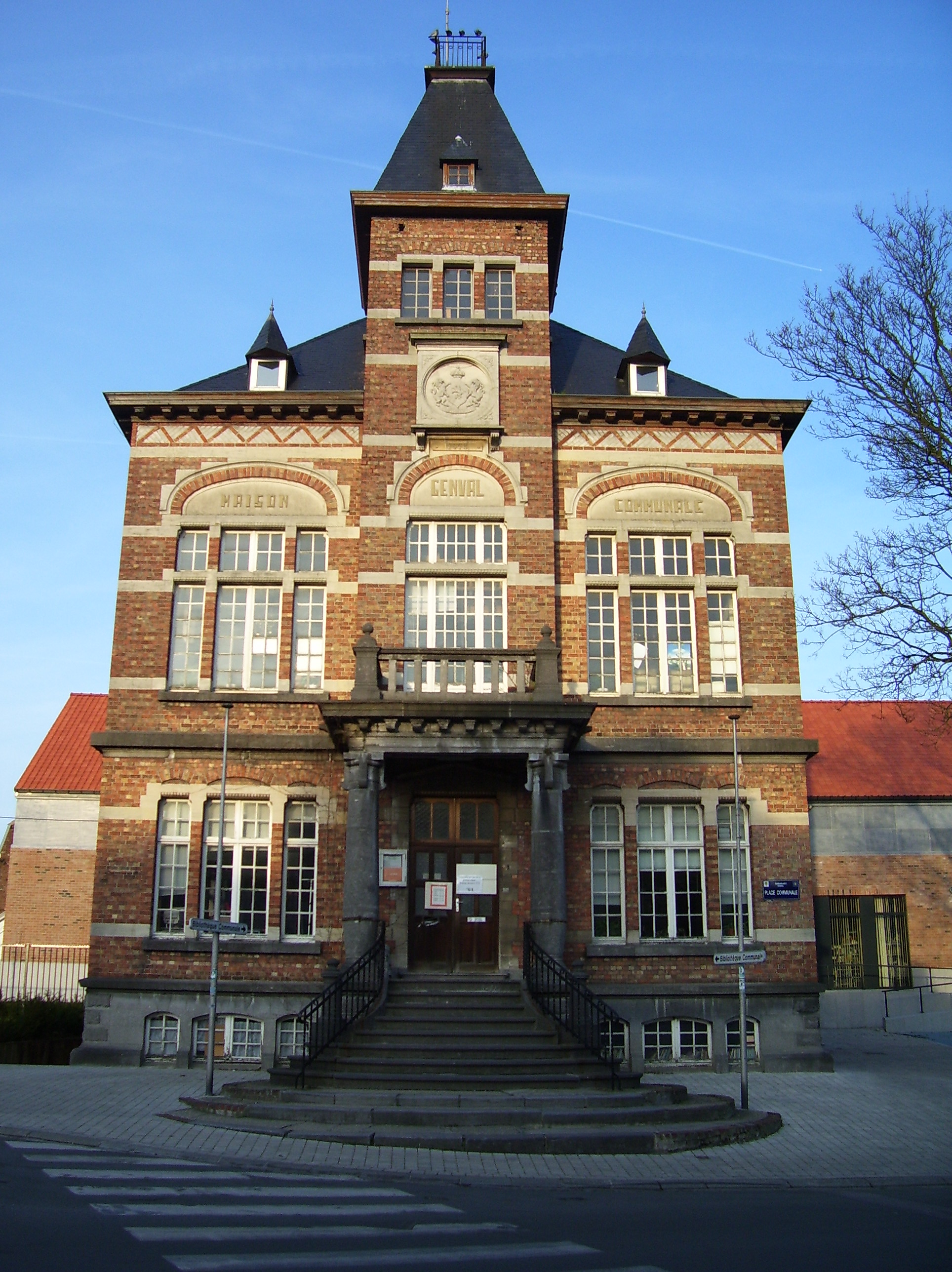 Library in Genval, Belgium, Maison communale (municipality) of Genval till 1977